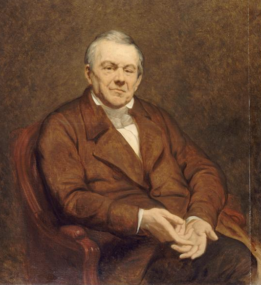 Abel-François Villemain (1790-1870), french writer, historian and politician